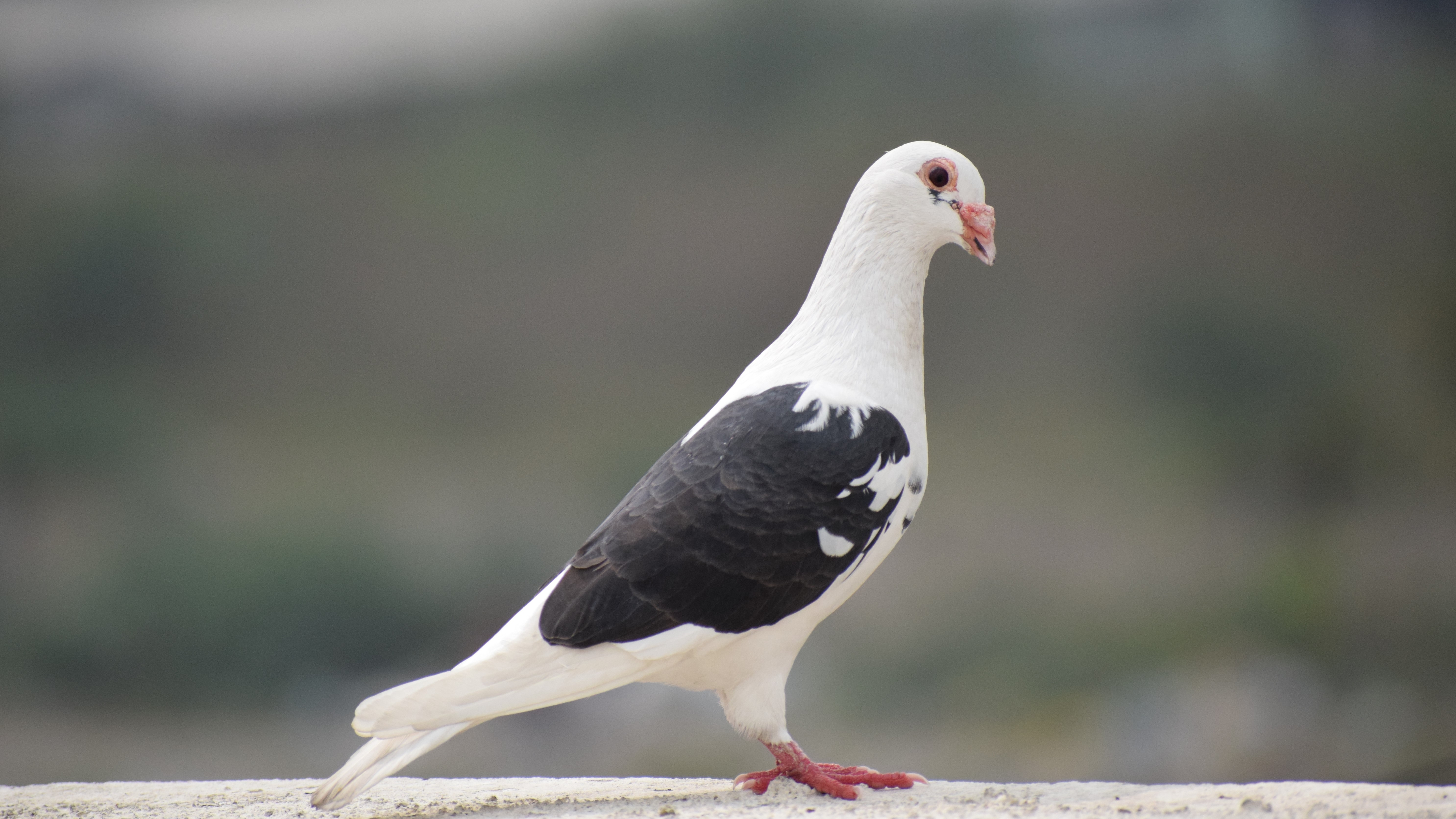 Common in Chennai, India